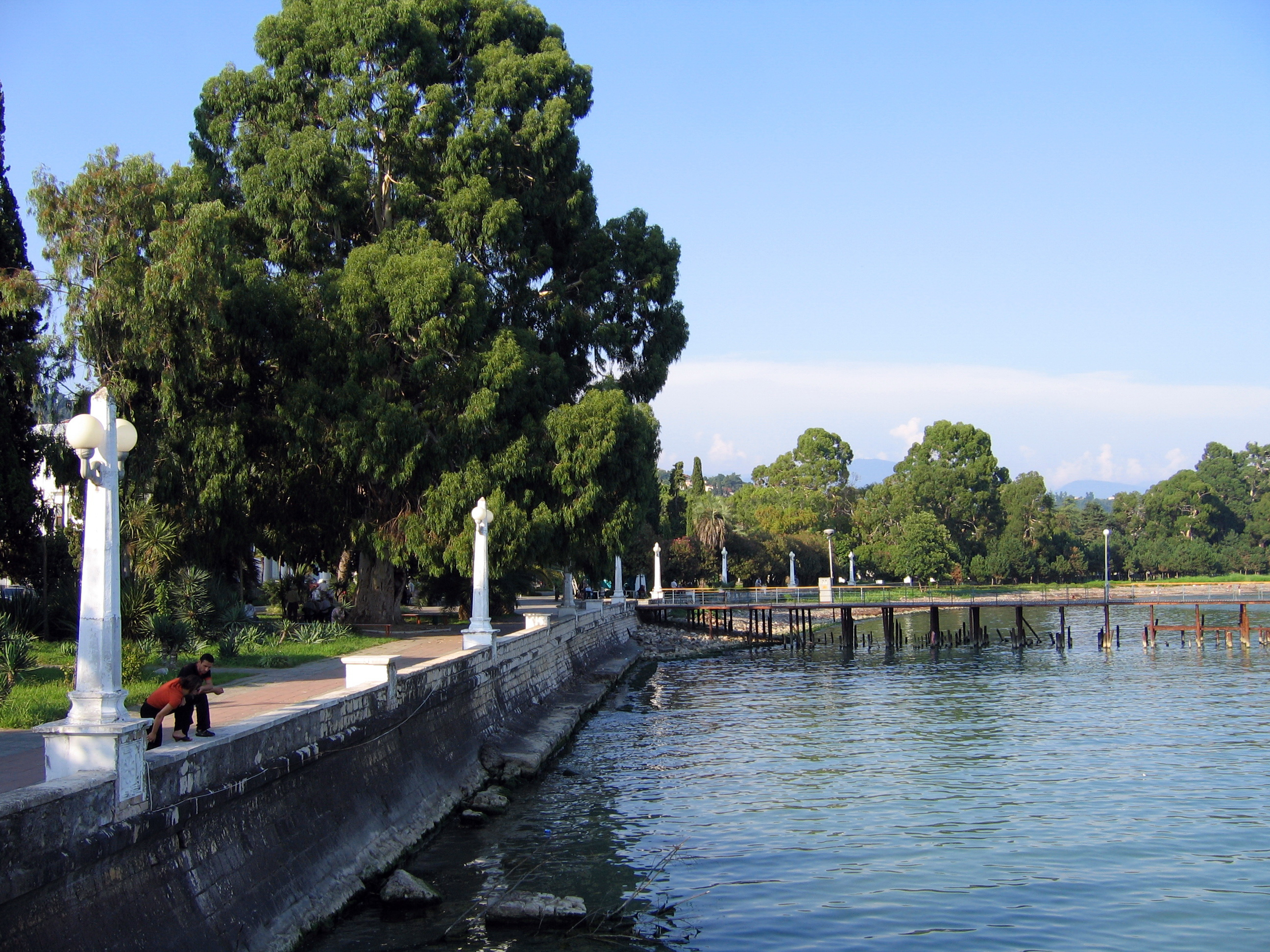 On quay.Sukhum. Abkhazia